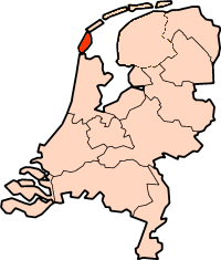 Island of Texel, The Netherlands